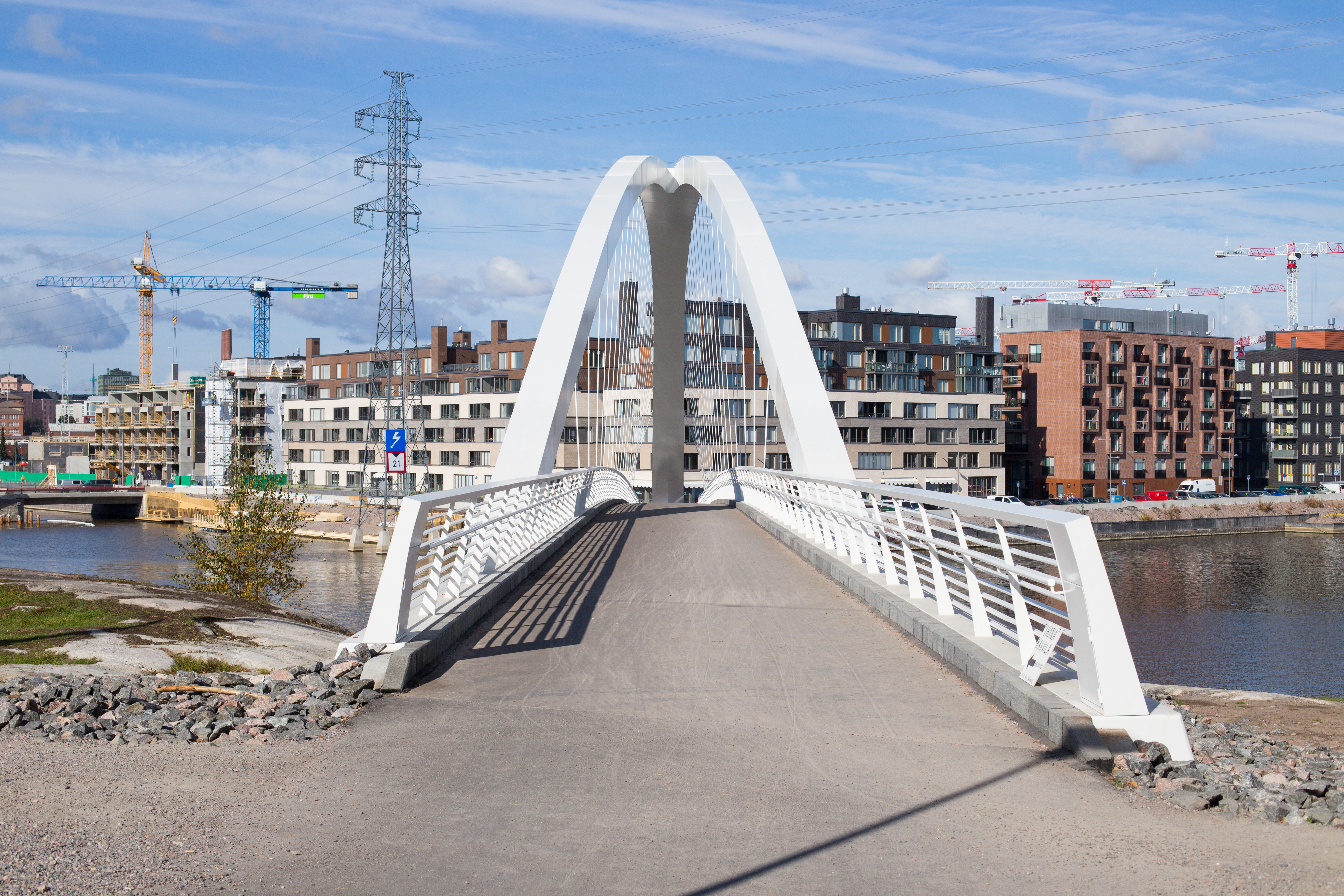 Isoisän silta from Mustikkamaa